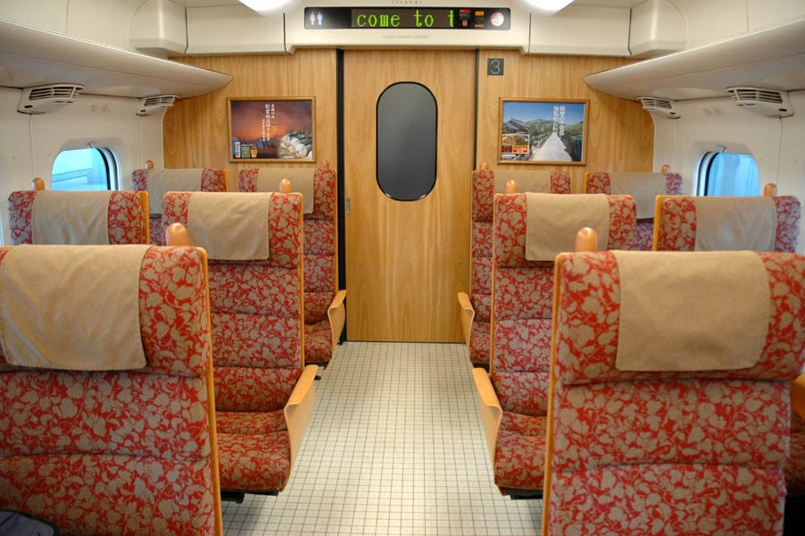 The interior of a JR Kyushu 800 series shinkansen train